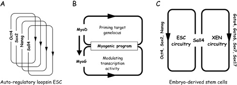 Transcription factors control the molecular circuits that govern stem cell identity. A. In ESCs, key pluripotency-associated factors Oct4, Sox2, Nanog and Sall4 form auto-regulatory loops that maintain their own transcriptional activity and gene expression. The stability of this set of core factors is further enhanced through the interconnectivity of these loops. B. During myogenesis, MyoD is an upstream regulator which activates the expression of MyoG. Both TFs are necessary for the myogenic program, and regulate a common subset of genes in a temporal manner. MyoD must initiate chromatin remodeling of genes for these to be subsequently bound and regulated by MyoG. C. The same TF, Sall4, have dual roles in controlling discrete circuits in the different embryo-derived stem cell lines, ESCs and XEN cells. In the respective cell types, Sall4 regulates distinctive sets of key factors that contribute to the specific cellular identity. In ESCs, Sall4 activates Oct4, Sox2 and Nanog; all of which positively feedback onto the Sall4 promoter. In XEN cells, Sall4 activates Gata4, Gata6, Sox7 and Sox17 which are necessary for the undifferentiated state. Whether these regulated factors directly feedback onto the Sall4 promoter is not known.